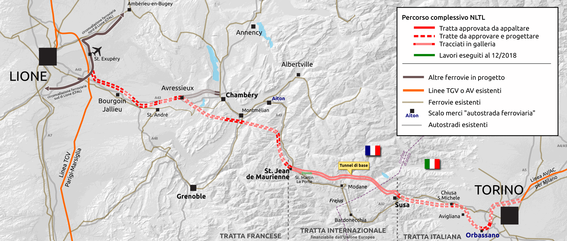 Project decisional and approbation state and work progress for the new Turin–Lyon train line.